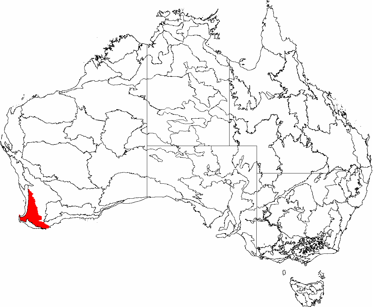 This is a map of the Interim Biogeographic Regionalisation of Australia (IBRA), with state boundaries overlaid. The Jarrah Forest region is filled in grey.